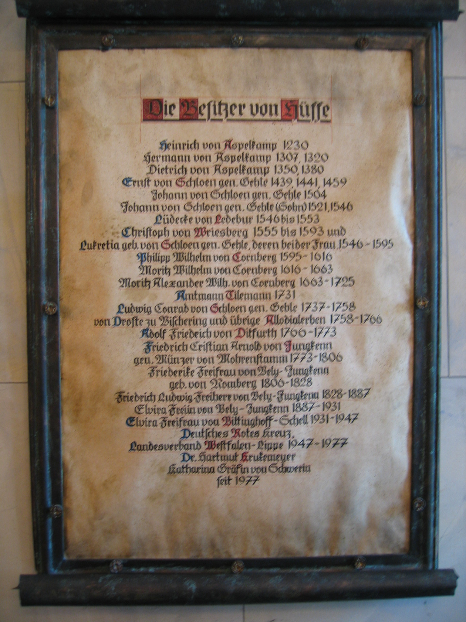 Hüffe Castle in Preußisch Oldendorf, District of Minden-Lübbecke, North Rhine-Westphalia, Germany.